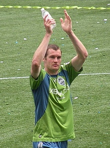 Jaqua thanking fans after game